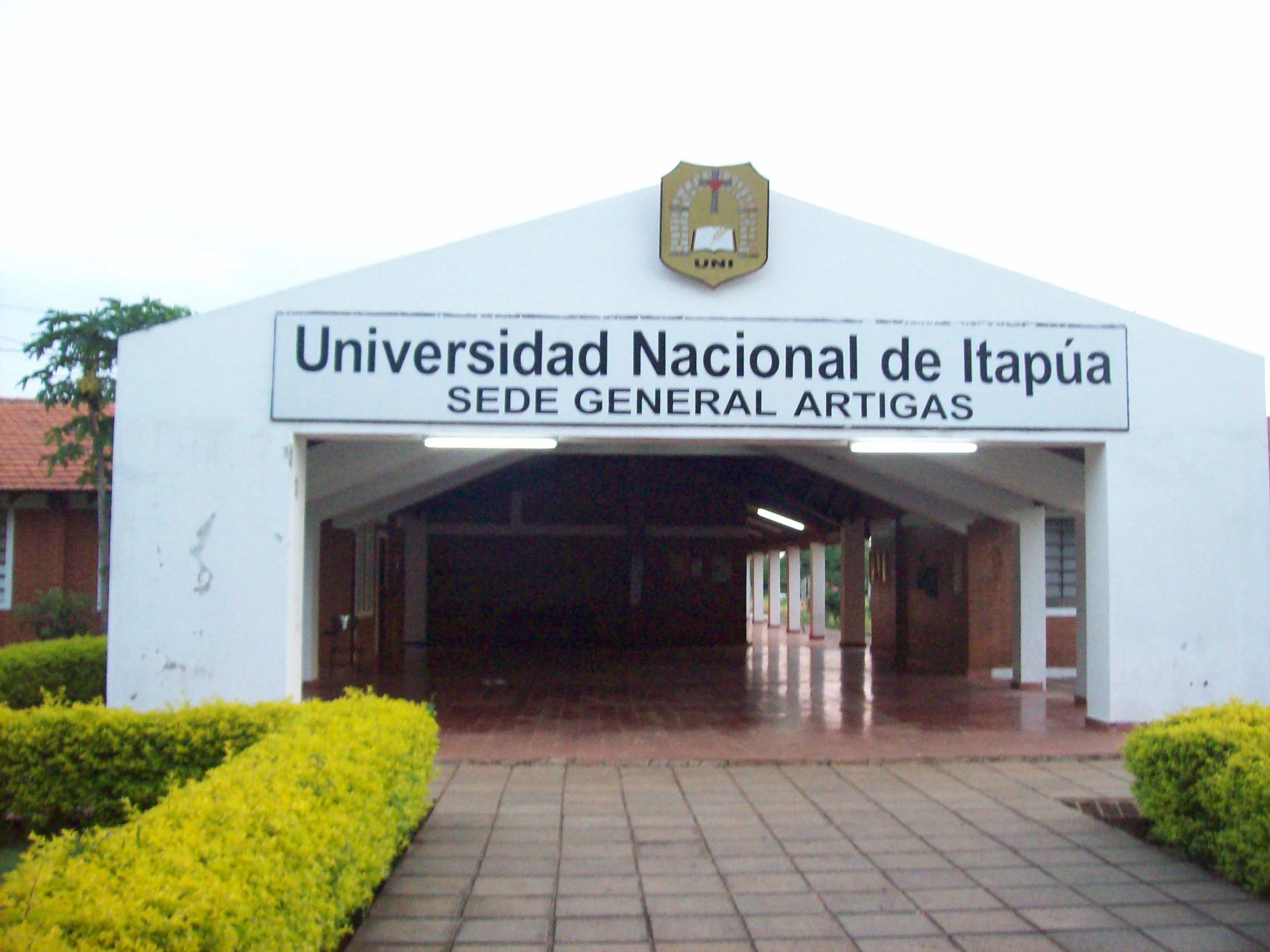 UNI - FaCAF